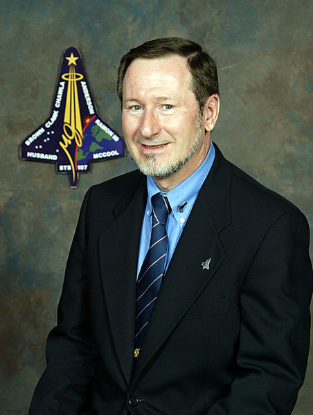 Douglas D. Osheroff - Nobel Prize winner.